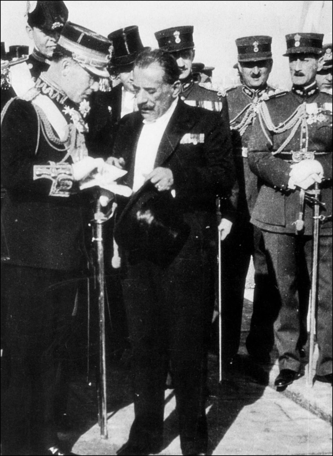 Regent Georgios Kondylis (in frock coat, centre) hands King George II of Greece (in ceremonial uniform, left) the text of his speech on the latter's return from exile, 25 November 1935. Crown Prince Paul| (wearing a bicorne hat) is visible behind his brother